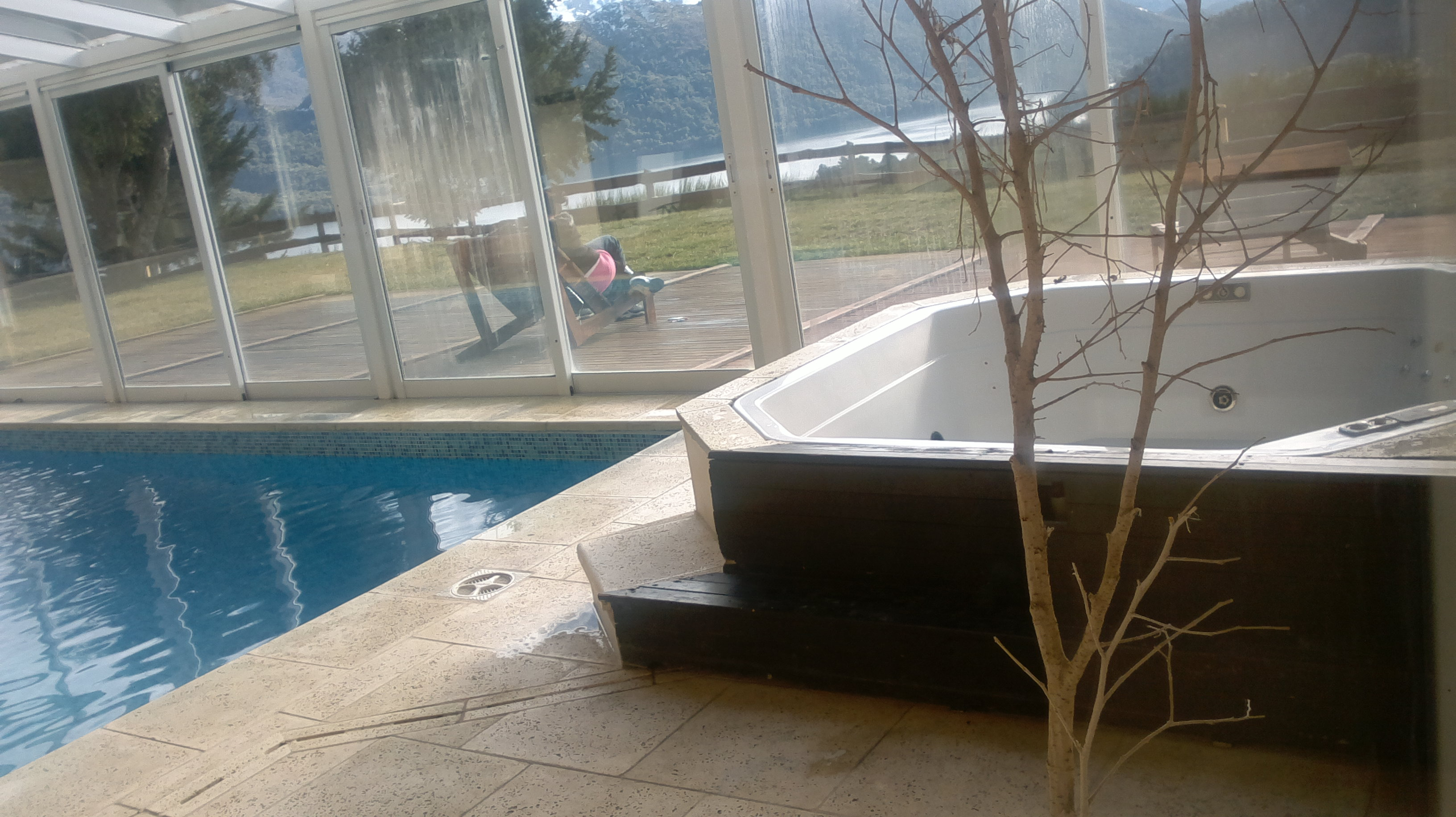 Jacuzzi next to a Swimming Pool